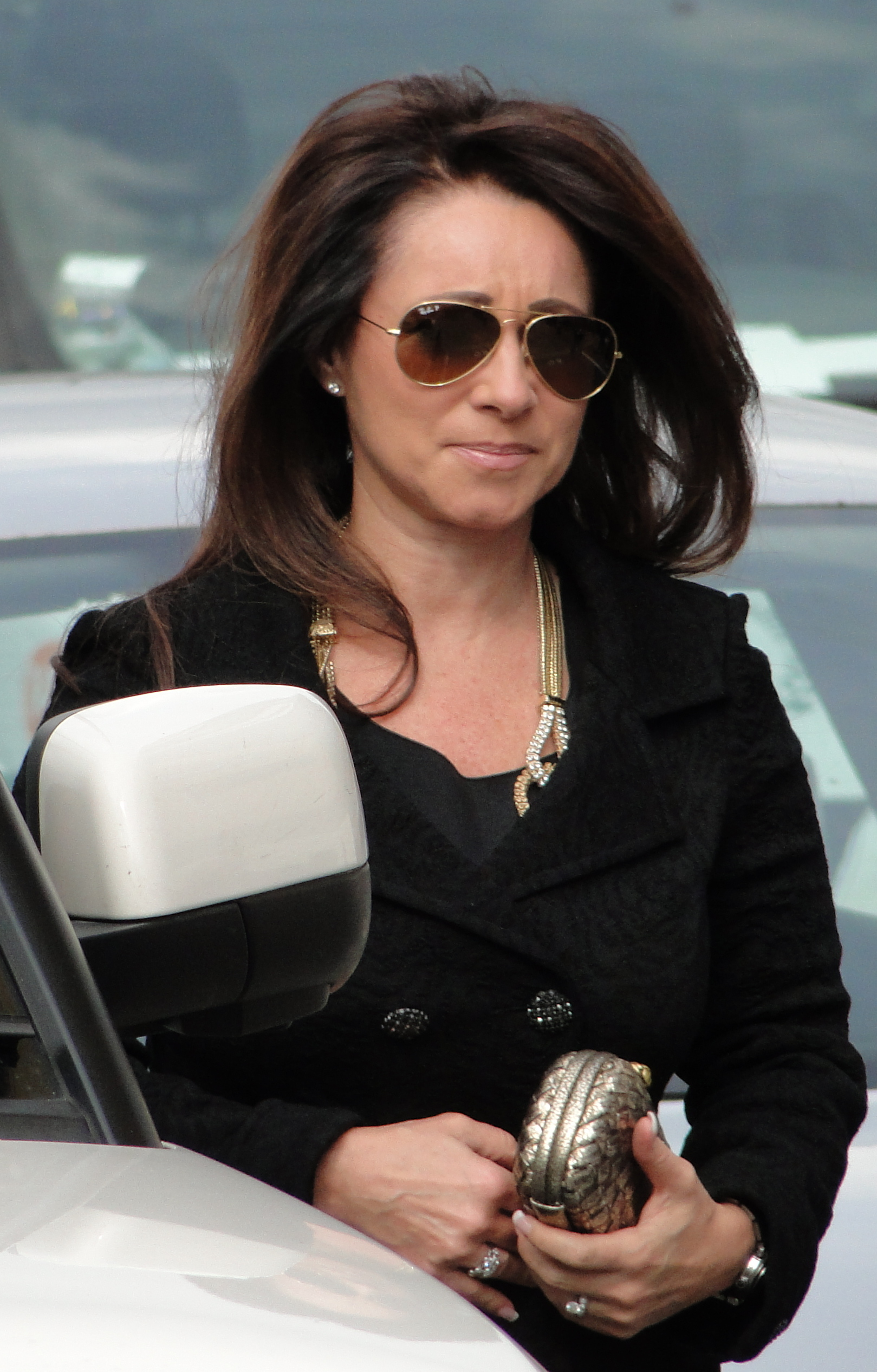 Jacqueline Gold arriving at Upton Park to watch West Ham United where he father is co-chairman